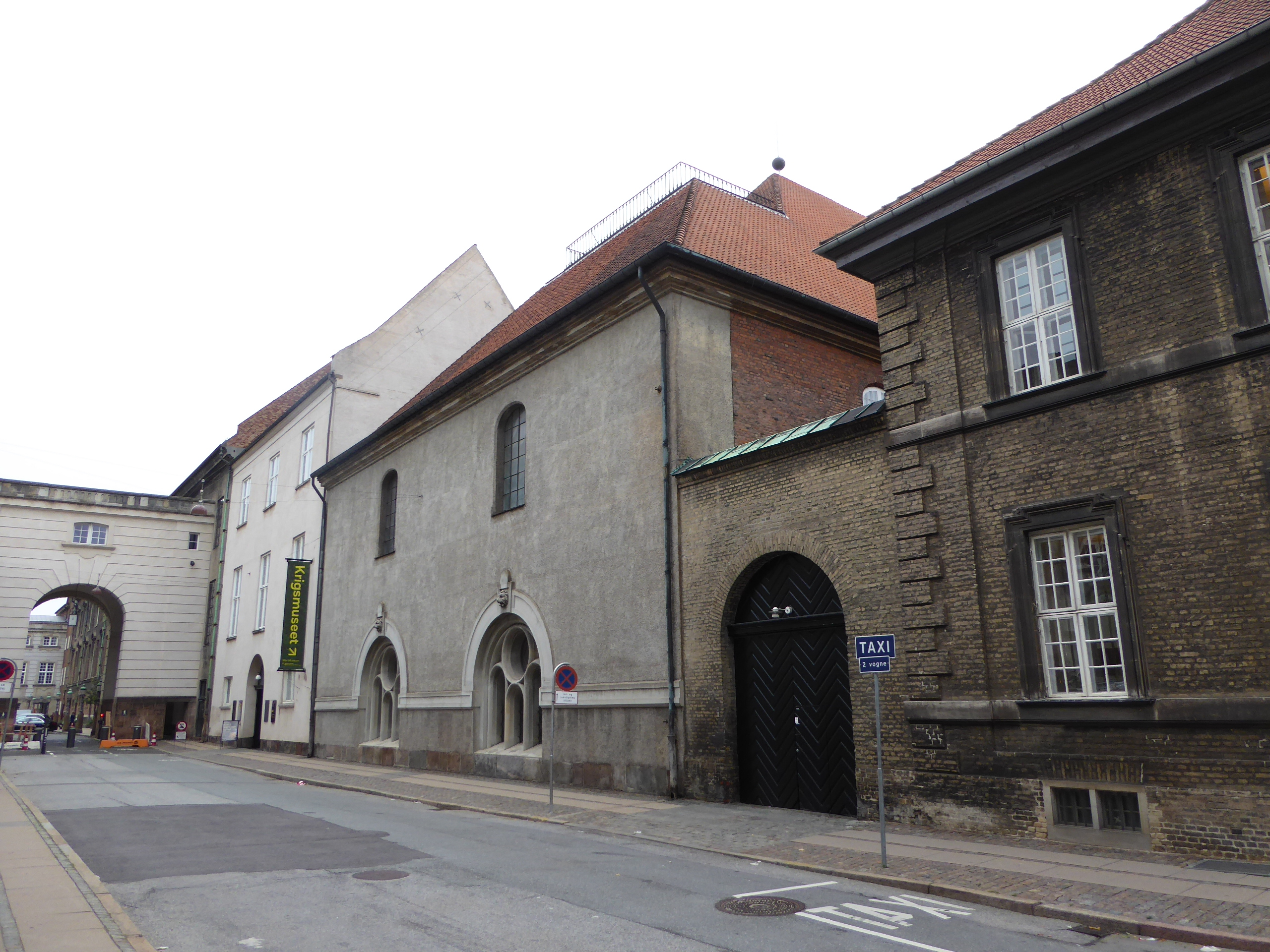 Krigsmuseet (the War Museum) at Tøjhusgade on Slotsholmen in Copenhagen. It was former known as Tøjhusmuseet.